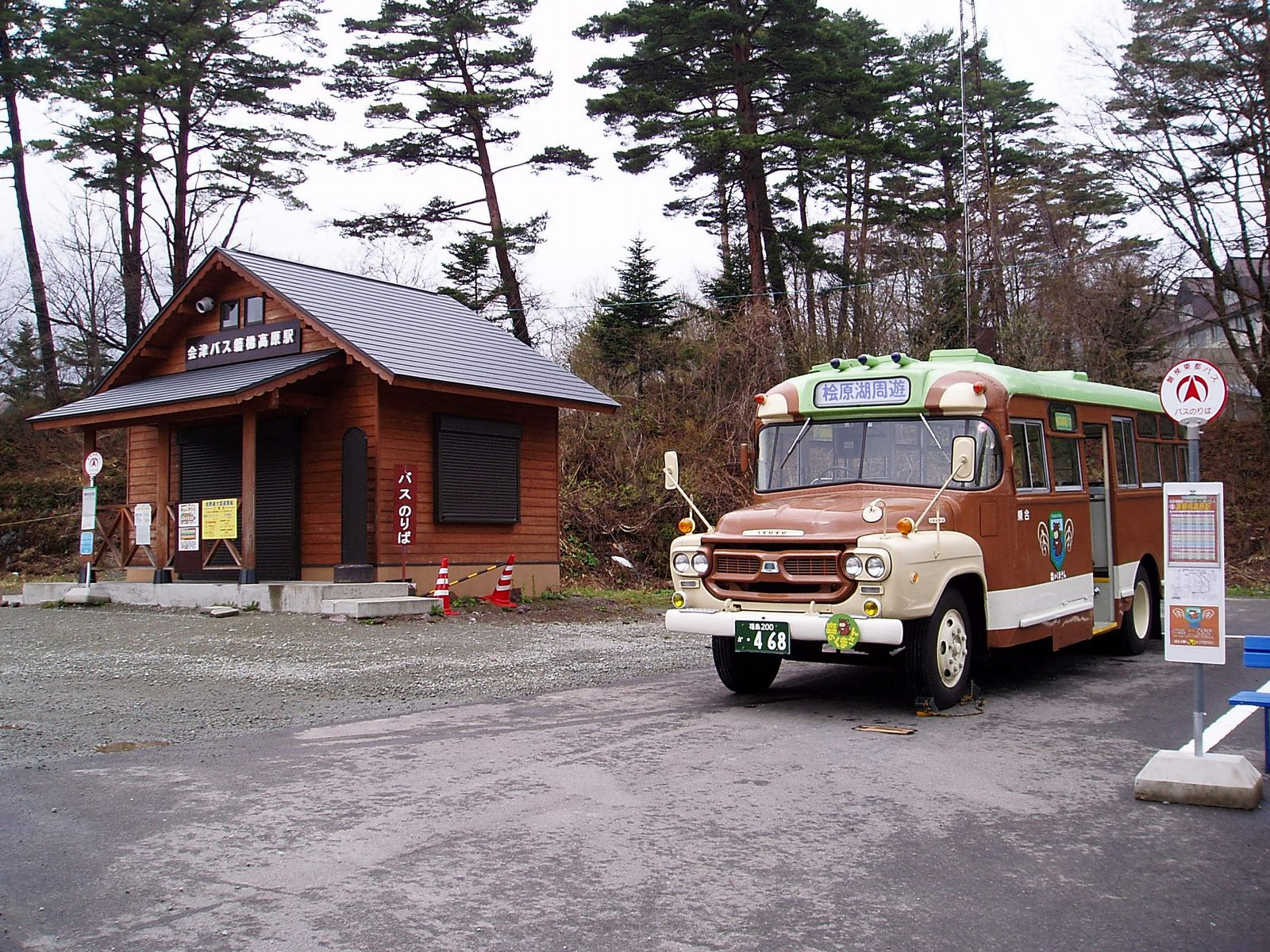 Urabandai-Kogen Sta